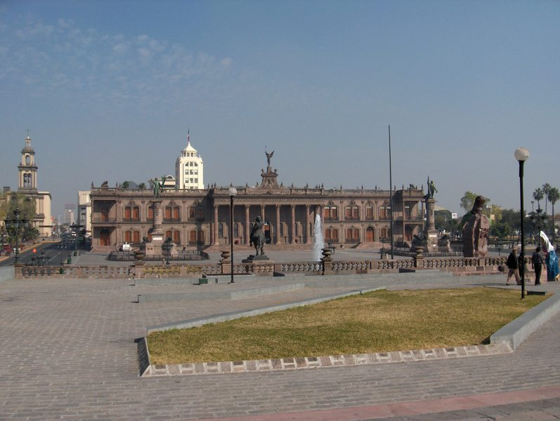 Heroes' Esplanade in "Macroplaza" Monterrey Mexico.